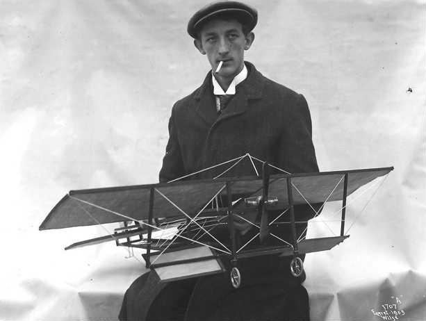 Norwegian engineer Einar Lilloe Gran with a model of his unsuccessful aircraft design. The design was the first manufactured in Norway.